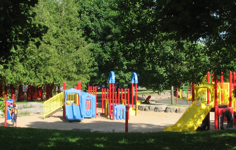 My own pictures